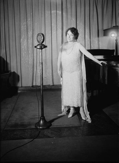 Frances Alda, a New Zealand operatic soprano